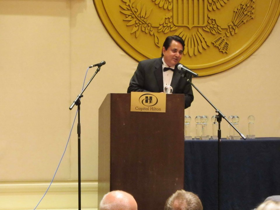 Actor Noor Naghmi wins Best Supporting Actor award at the World Music and independent Film Festival 2011 in D.C.